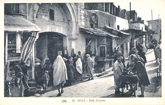 A postal card showing Bab Diwan